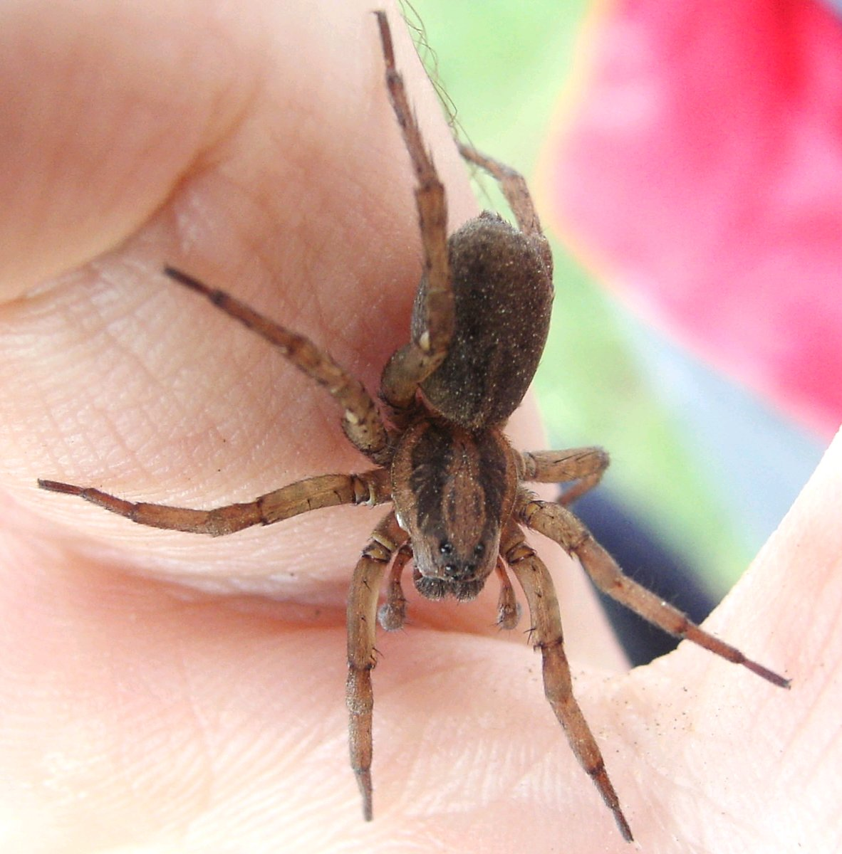 Probably Trochosa sp. (possibly T. terricola or T. ruricola?) from a meadow in a forest near Nettersheim, Germany. Male specimen.